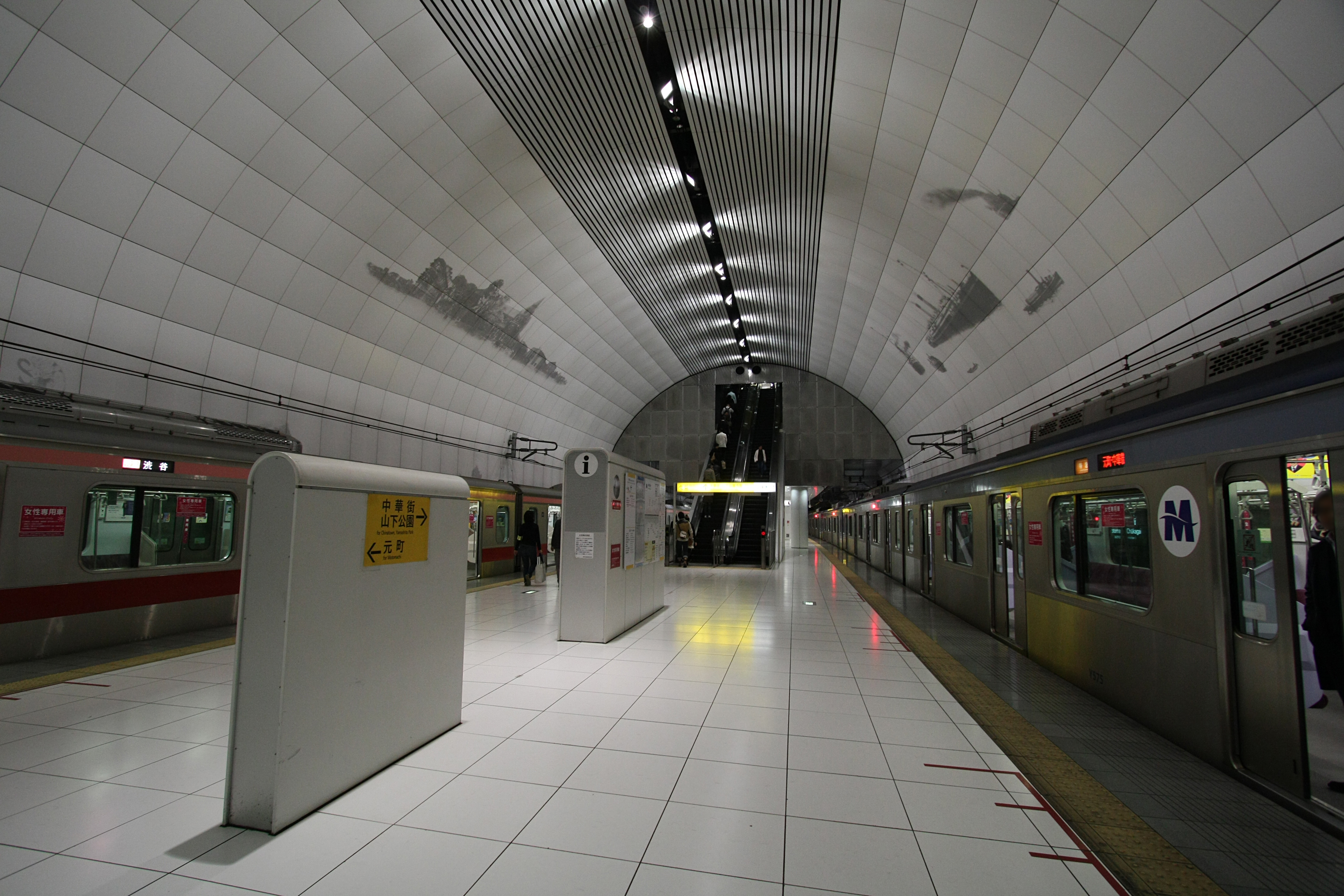 Motomachi-Chukagai Station Platform